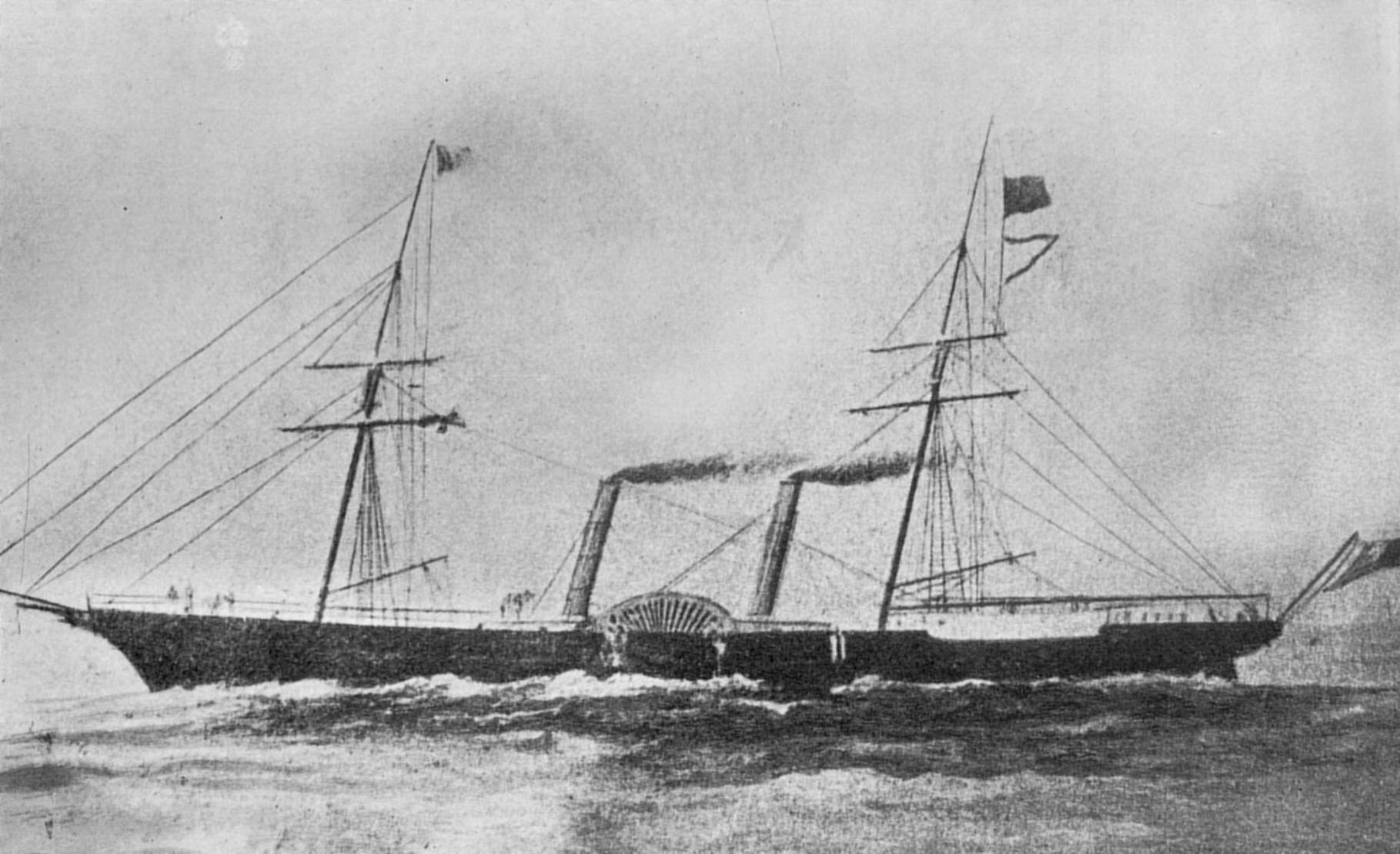 Paddle despatch vessel HMS Coromandel, purchased 1855 and previously known as 'Tartar'. Sold in 1866 to Japan and broken up in 1876.